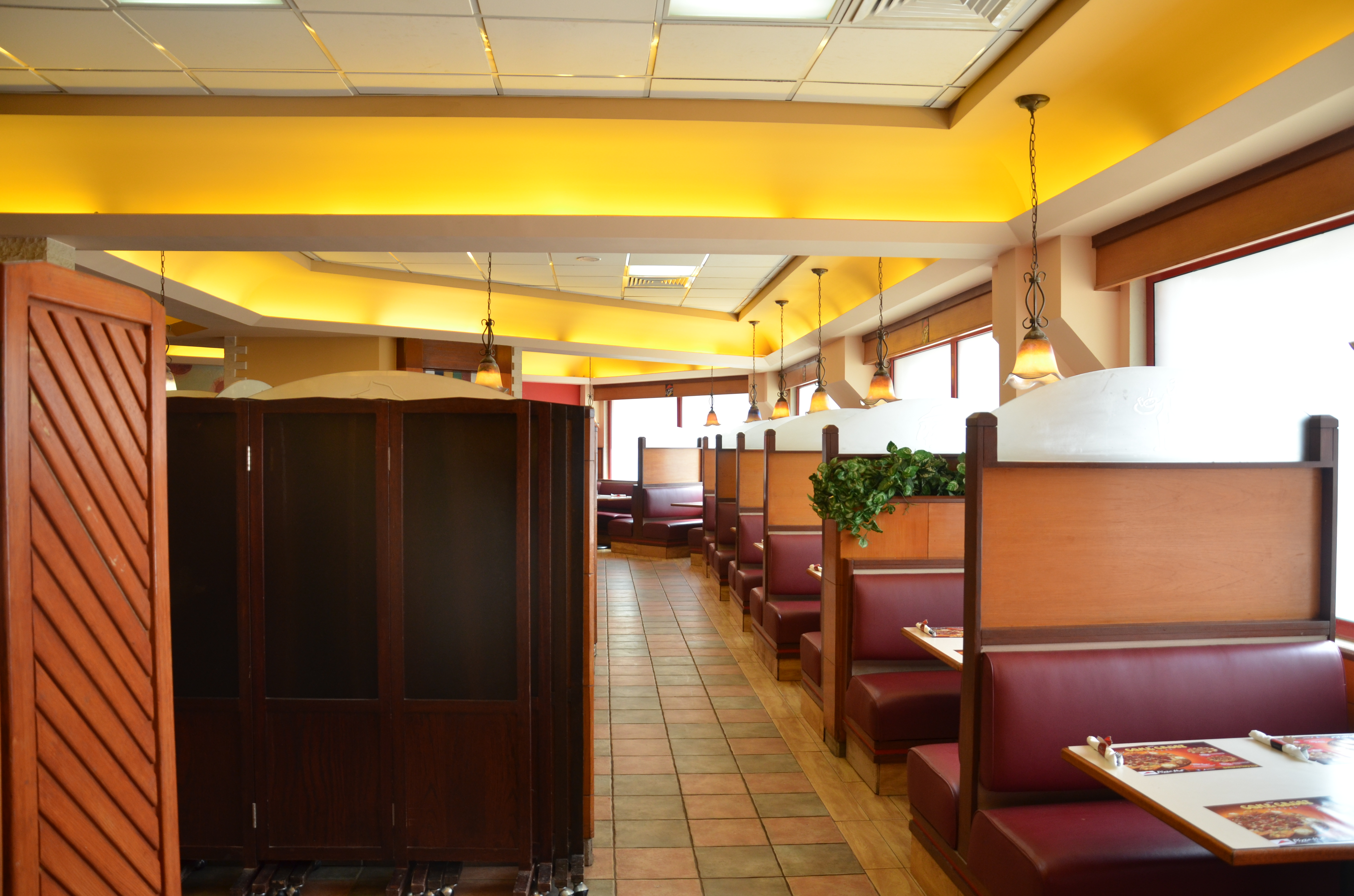 Pizza Hut Restaurant Riyadh